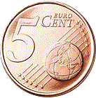 Common (or European) side of a €0.05 coin. It is copyrighted by the European Union.